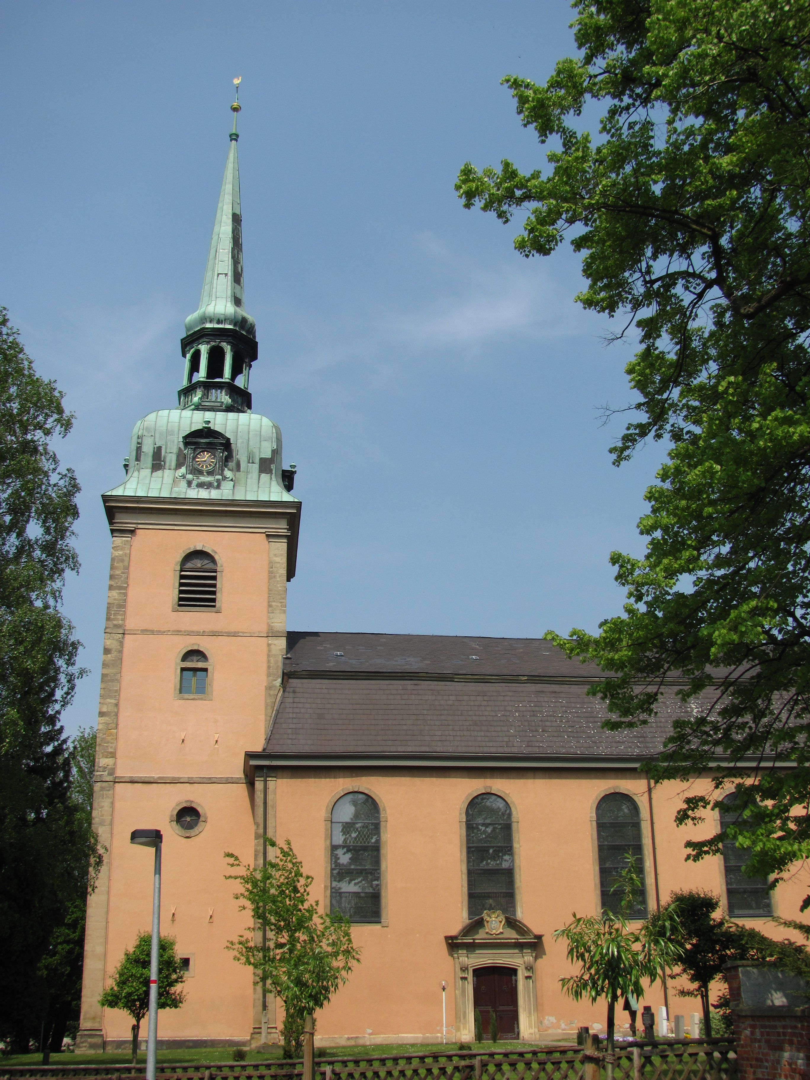 Saint Stephanus Catholic Church (1742), Schellerten-Dinklar, Lower Saxony, Germany